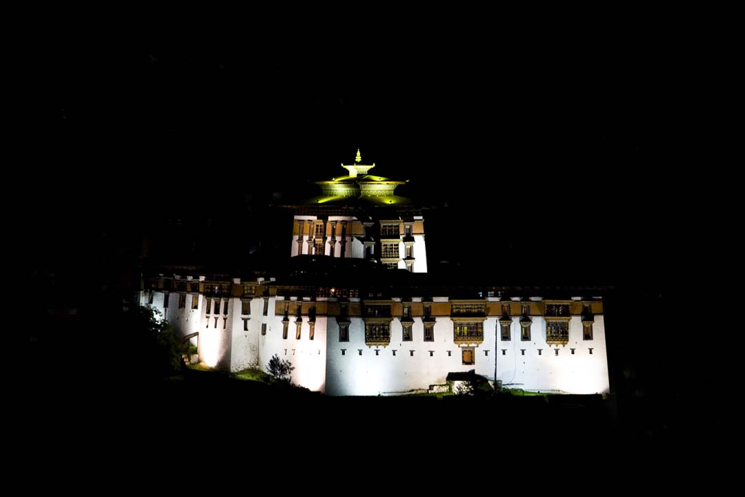 ...night view from my hotel room balcony in Paro. Built in 1646, the Paro Dzong is perhaps the country’s most recognized, best known as the location where scenes from the film "The Little Buddha" were shot. Containing monasteries and administrative offices, dzongs are usually set in commanding positions on hilltops or at the confluence of rivers.